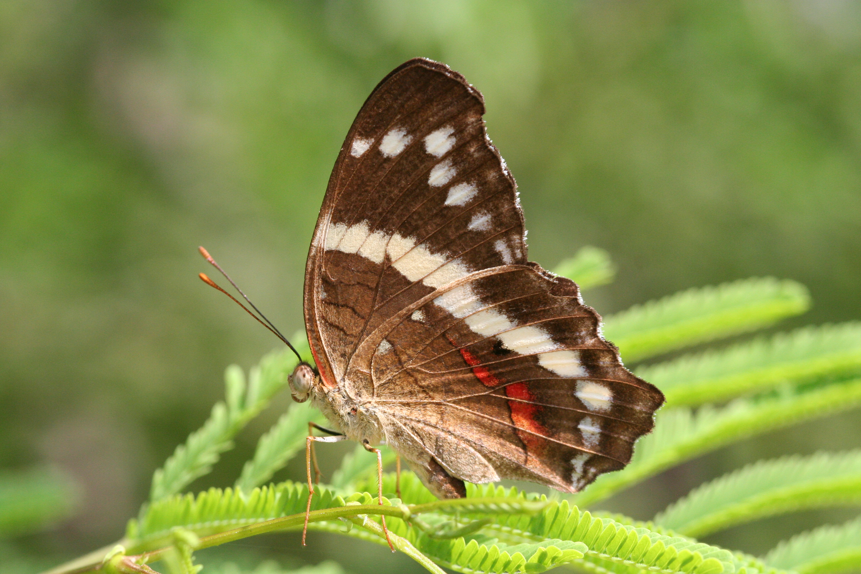 Banded peacock (Anartia fatima)